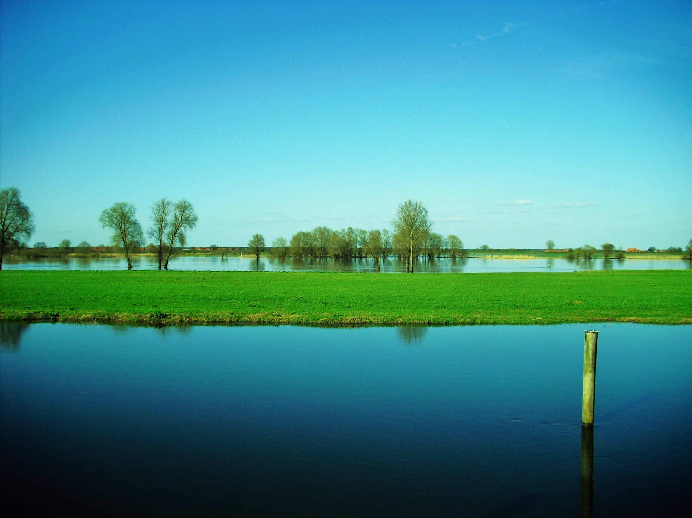 River Elbe near Hitzacker (Elbe)